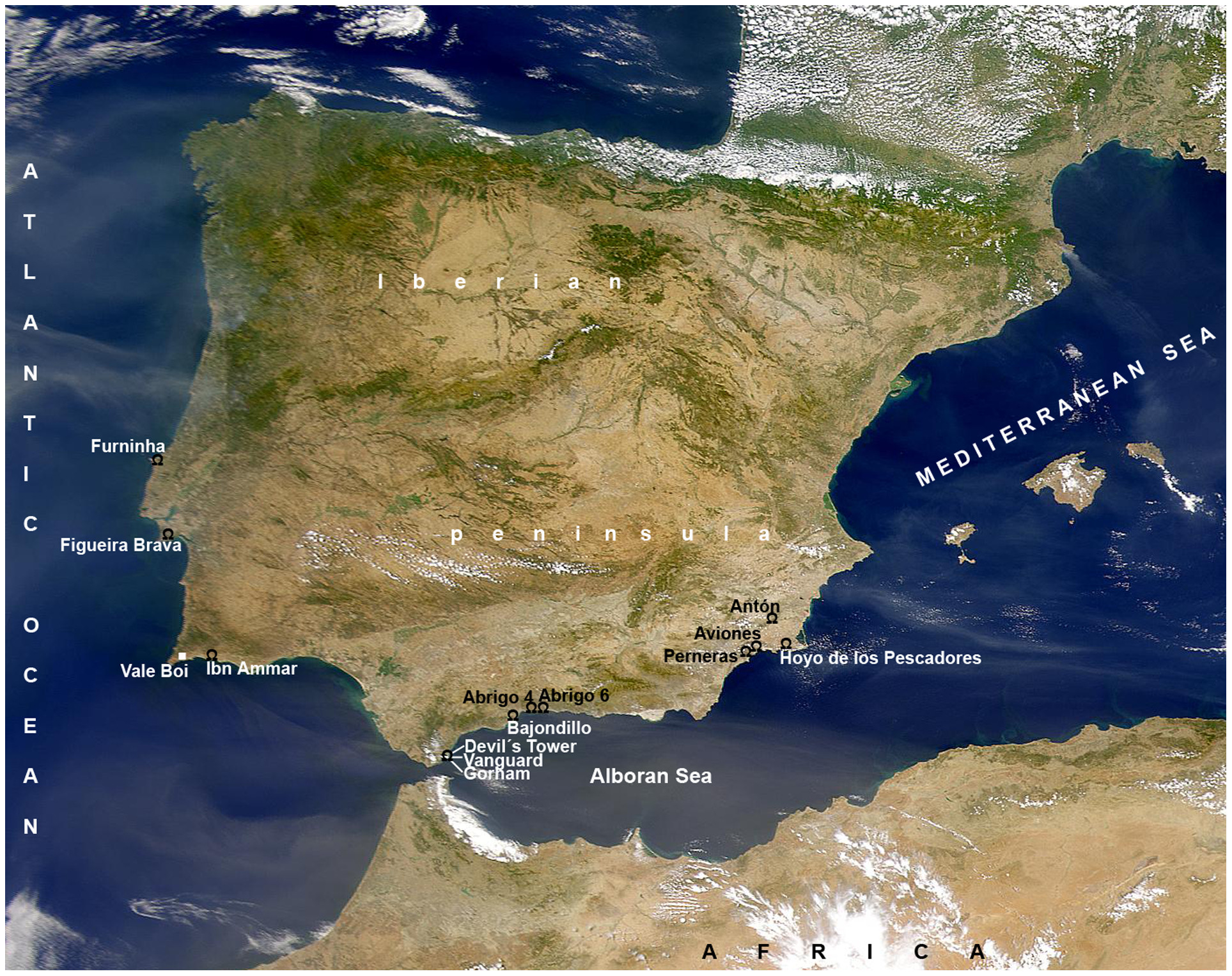 Map of the Iberian Peninsula locating Middle Paleolithic sites with reported finds of marine mollusks.